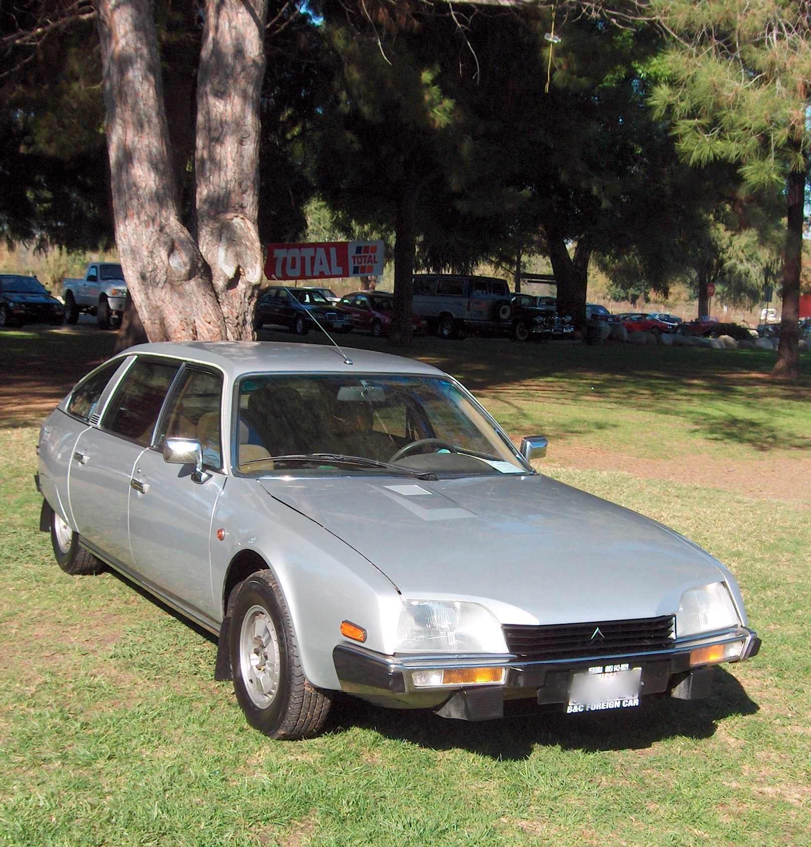 Citroën CX I took this photo in a public location.